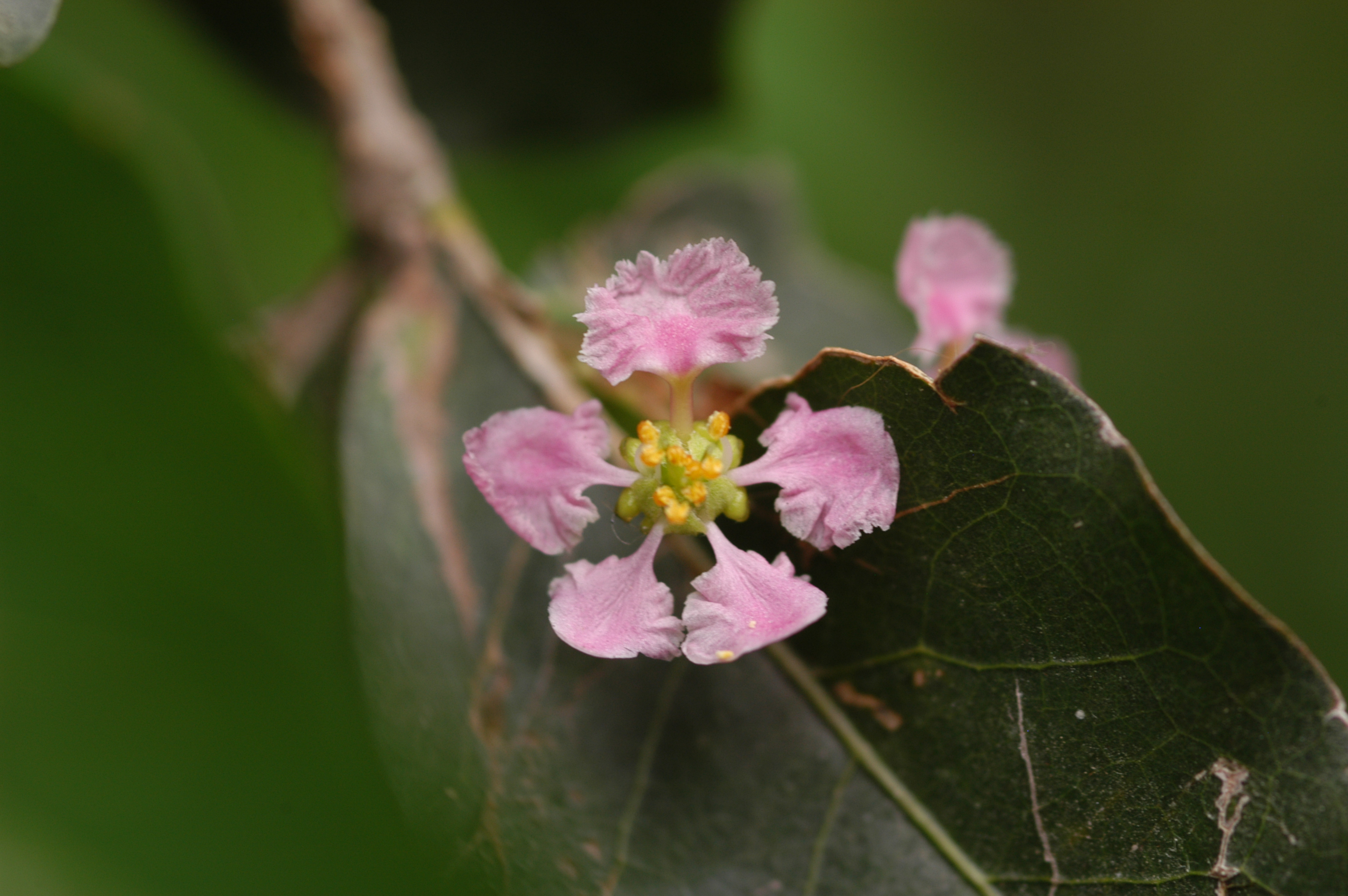 Malpighia glabra